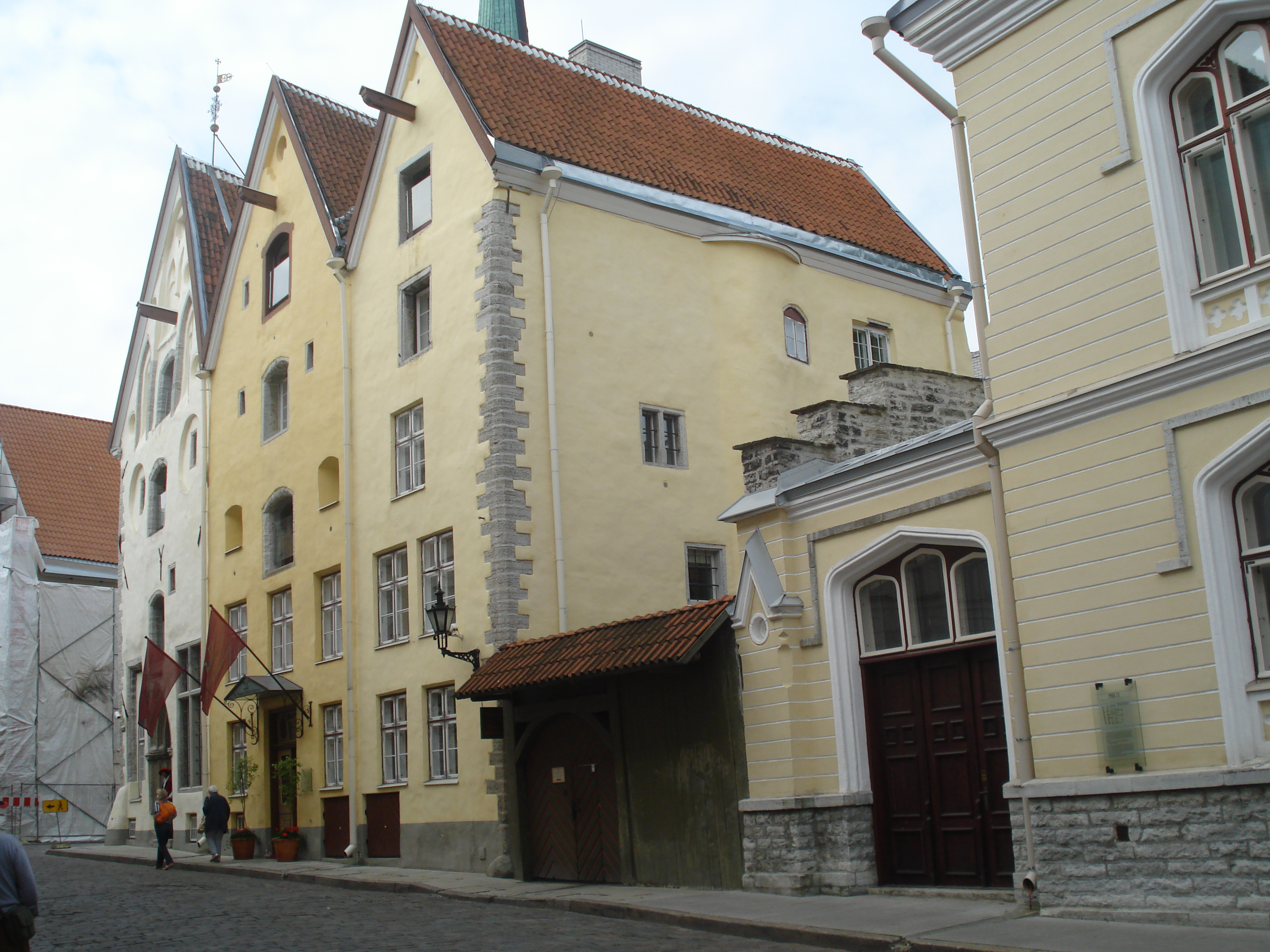 The Three Sisters in Tallinn. Pikk 71